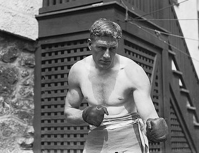 Bombardier Billy Wells, English boxer, preparing in Rye, N.Y., for fight with Al Panzer